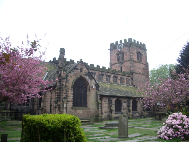 Photograph